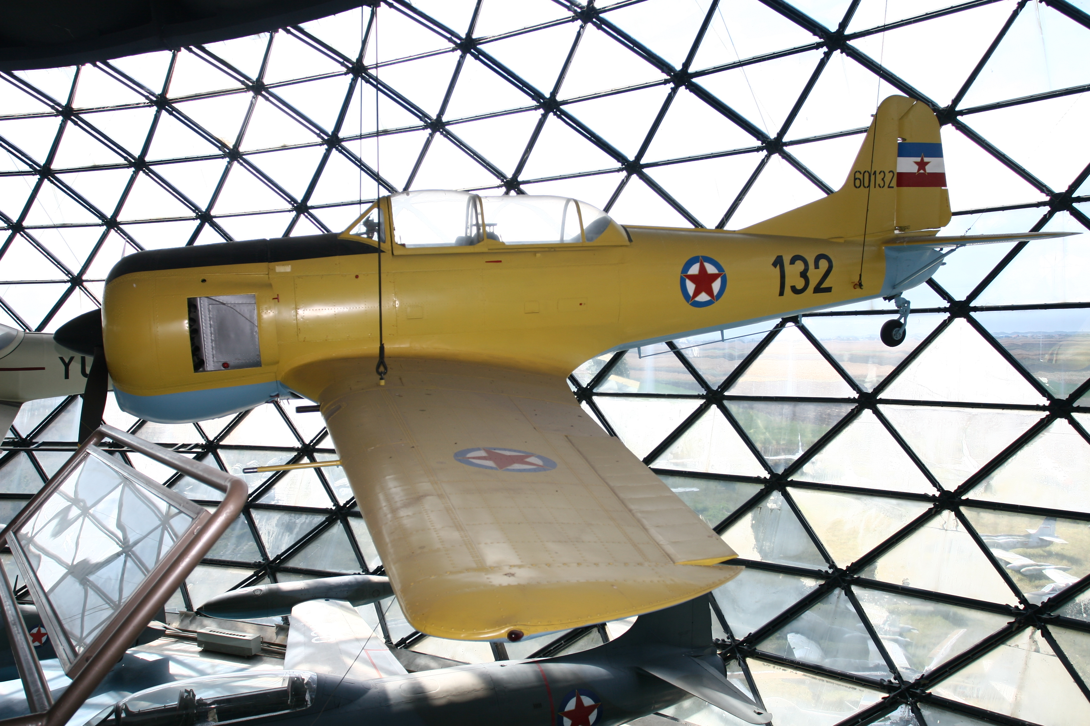 Soko 522